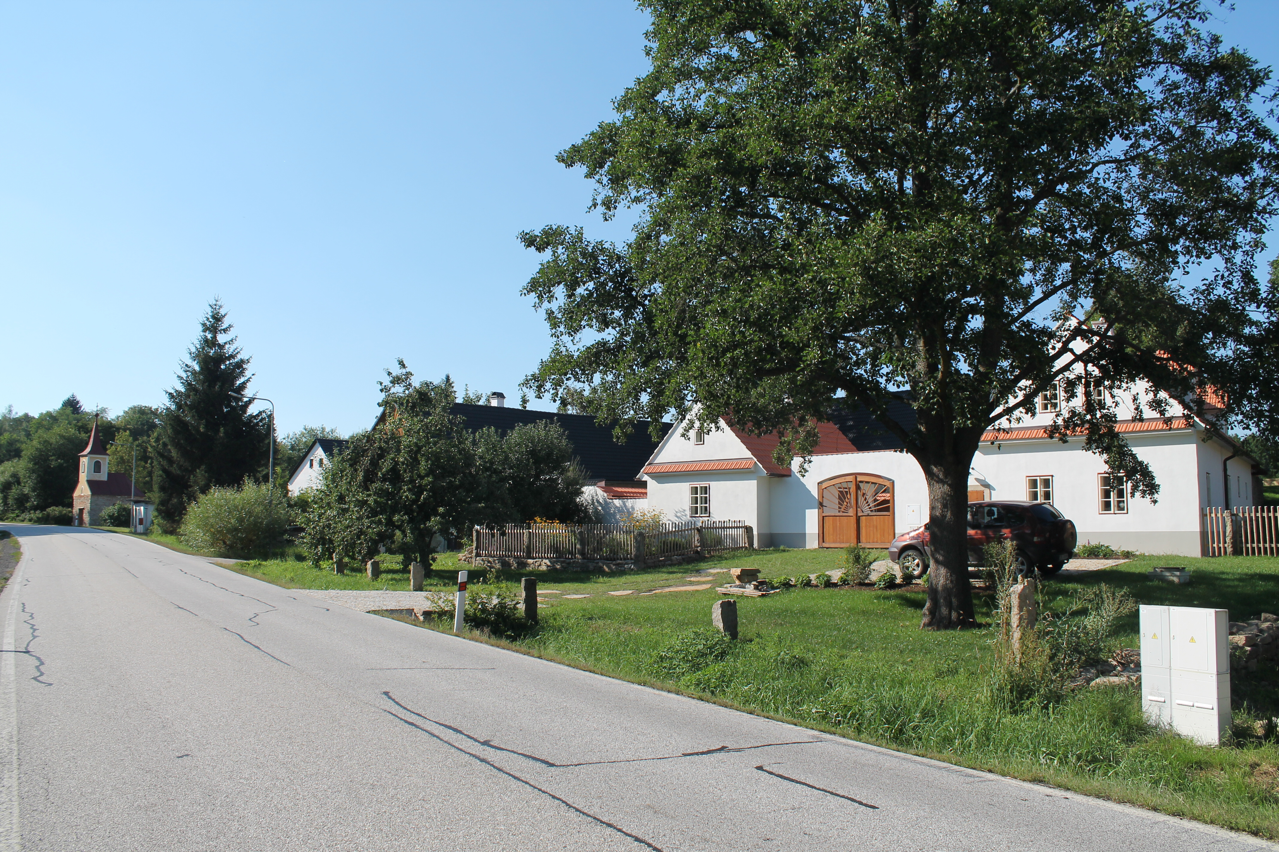 Podlesí, Staré Město pod Landštejnem, Jindřichův Hradec District, Czech Republic